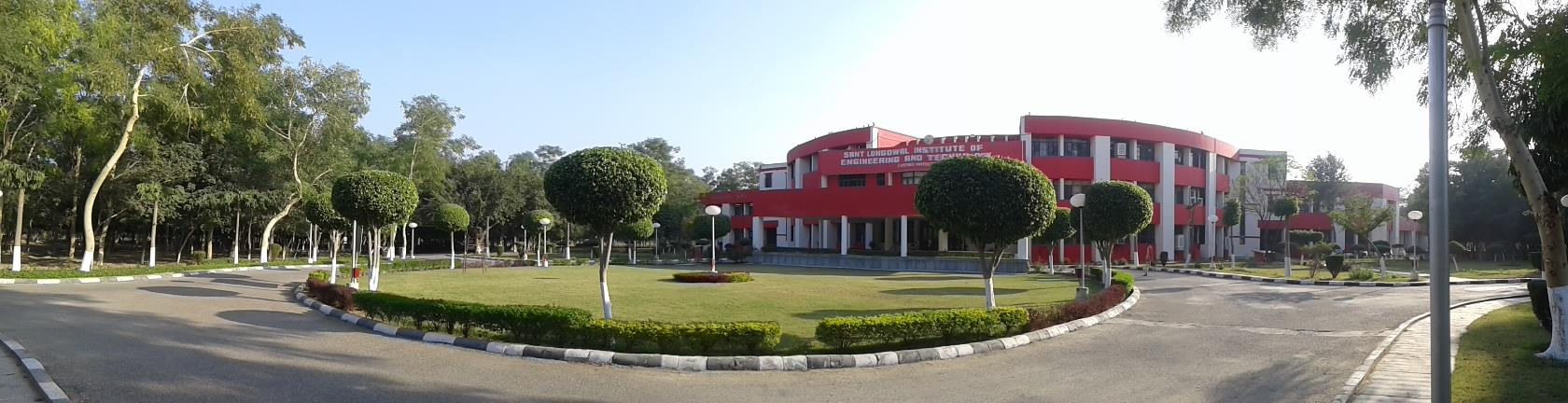 Panorama of Institute's Main Building, SLIET Longowal